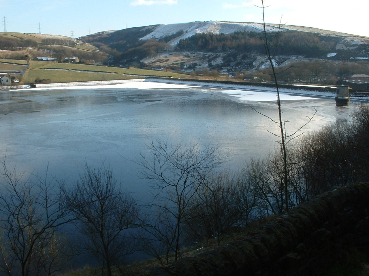 Ogden Reservoir frozen over in early 2006.